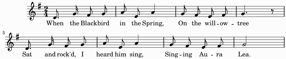 Excerpt from "Aura Lea", by Fosdick and Poulton. Transcribed into GNU LilyPond format by SarekOfVulcan.